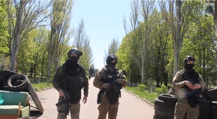 Ukrainian government soldiers near Kramatorsk in Donbass.